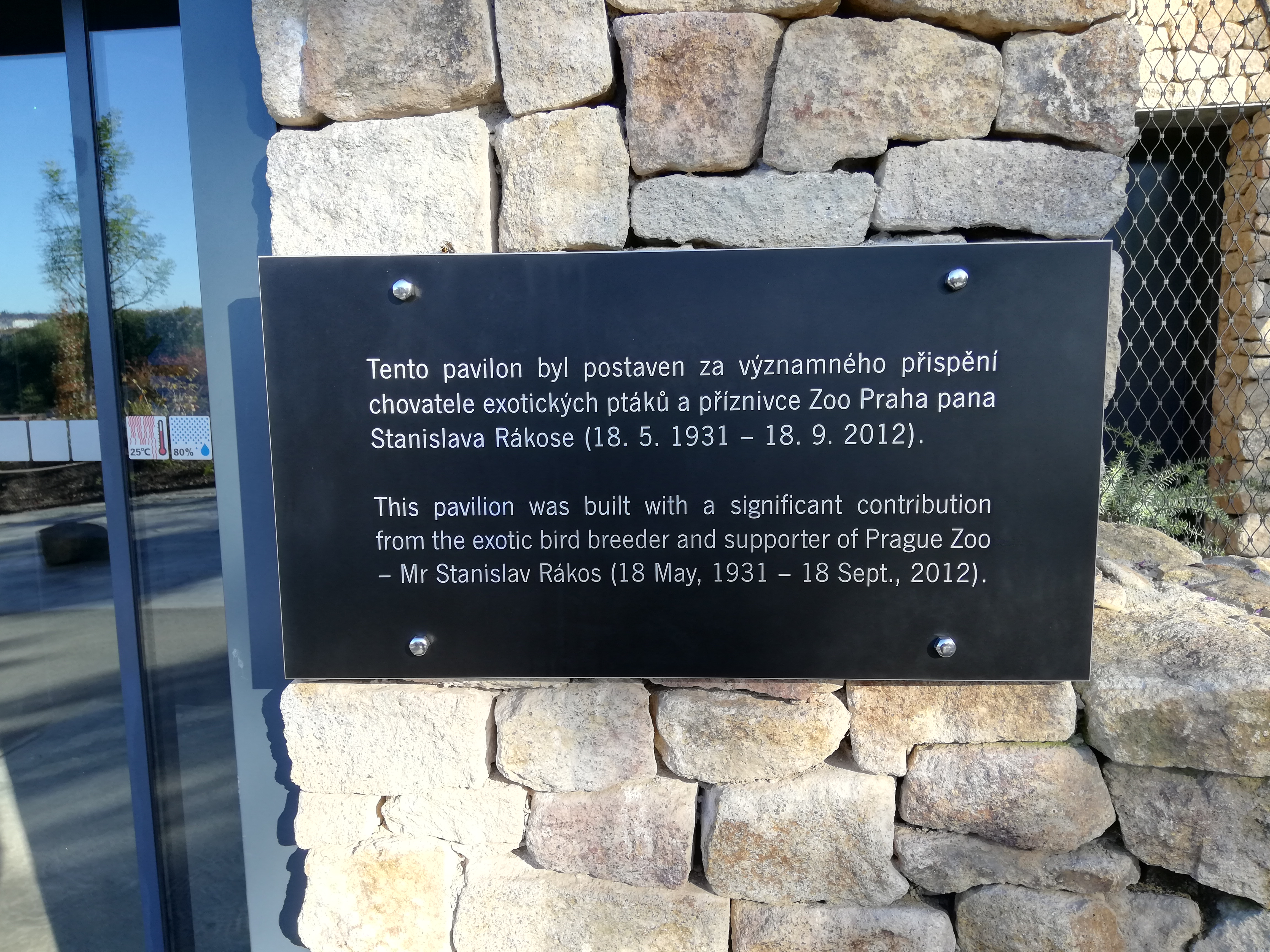 Stanislav Rákos (* May 18, 1931 - September 18, 2012) was a Czechoslovak and Czech breeder of exotic birds (parrots). Before his death he bequeathed all his property (worth about 50 million Czech crowns) to the Prague Zoo. From its financial support (10 million Czech crowns) was built (and inaugurated in 2019) pavilion with a large exhibition of exotic birds. In front of the entrance to the “Rákos' pavilion” there is a memorial plaque dedicated to Mr. Stanislav Rákos.